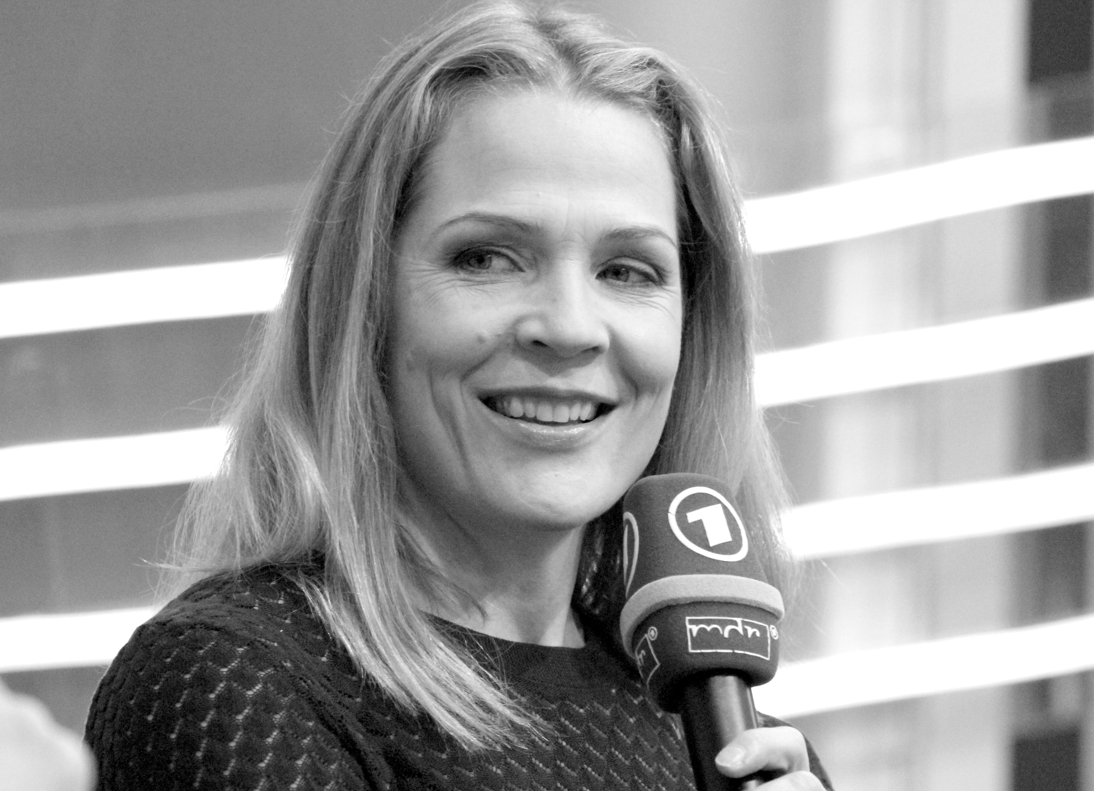 Åsne Seierstad Leipzig Book Fair 2018